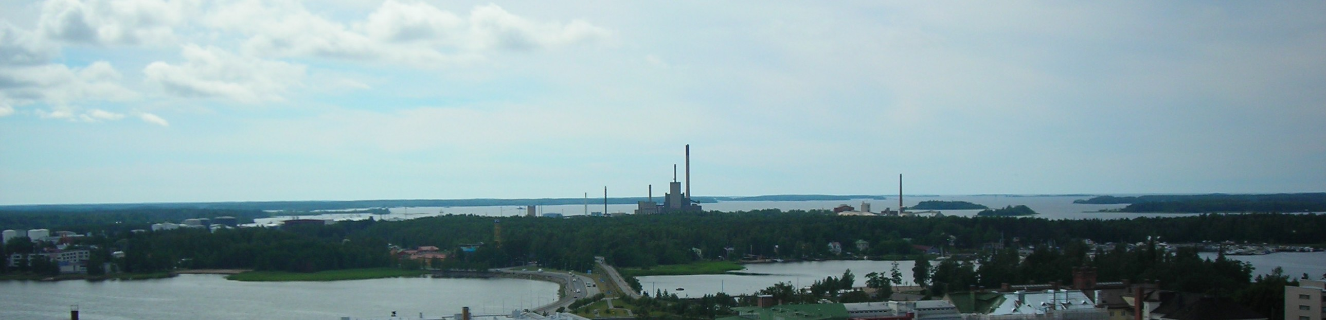 The island Vaskiluoto in front of the city of Vaasa, Finland. July 15th 2008. Taken from the Vaasa water tower.